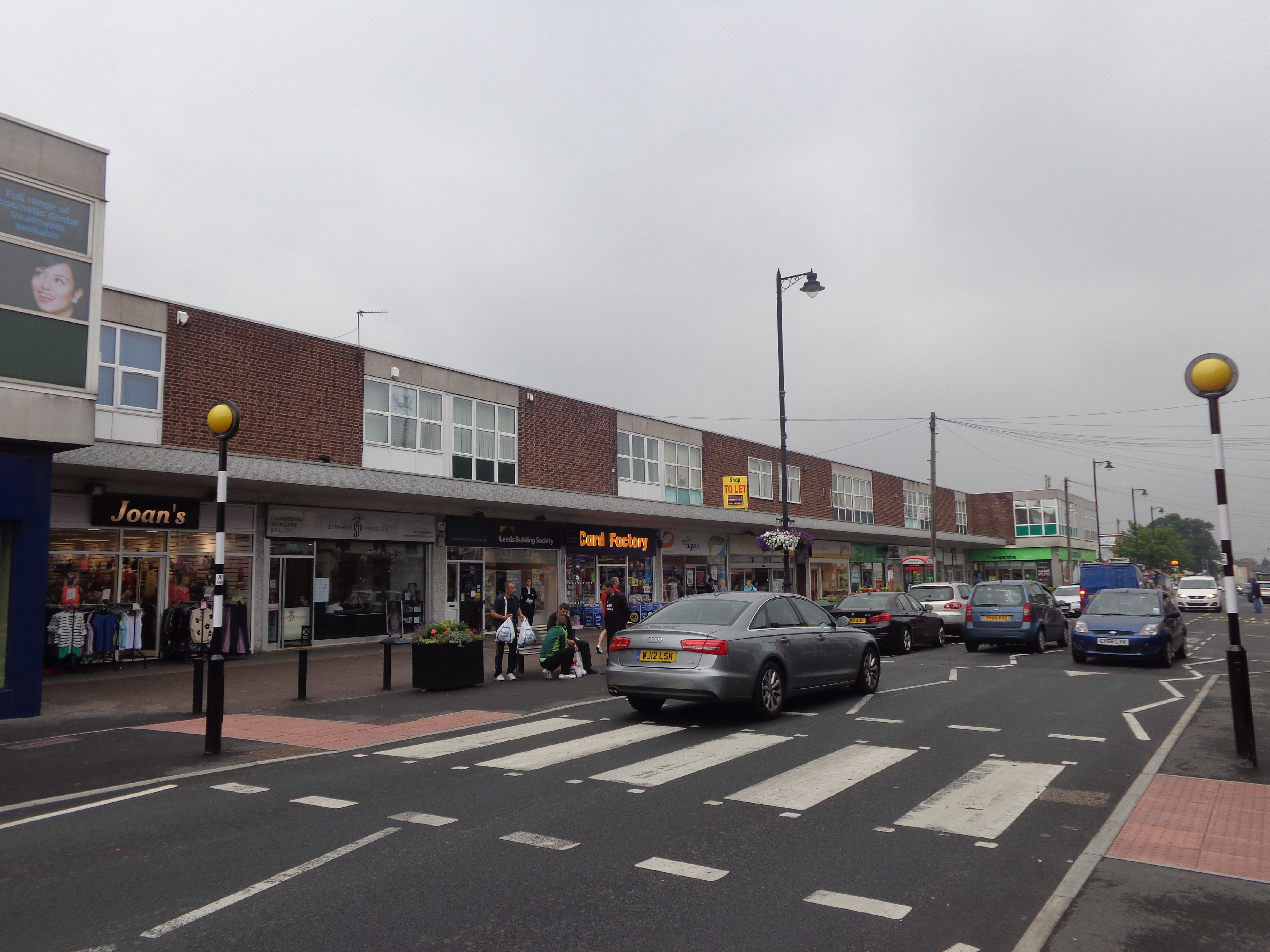 Shopping Parade, Main Street, Garforth, West Yorkshire. Taken on the aftenoon of Saturday the 19th of July 2014